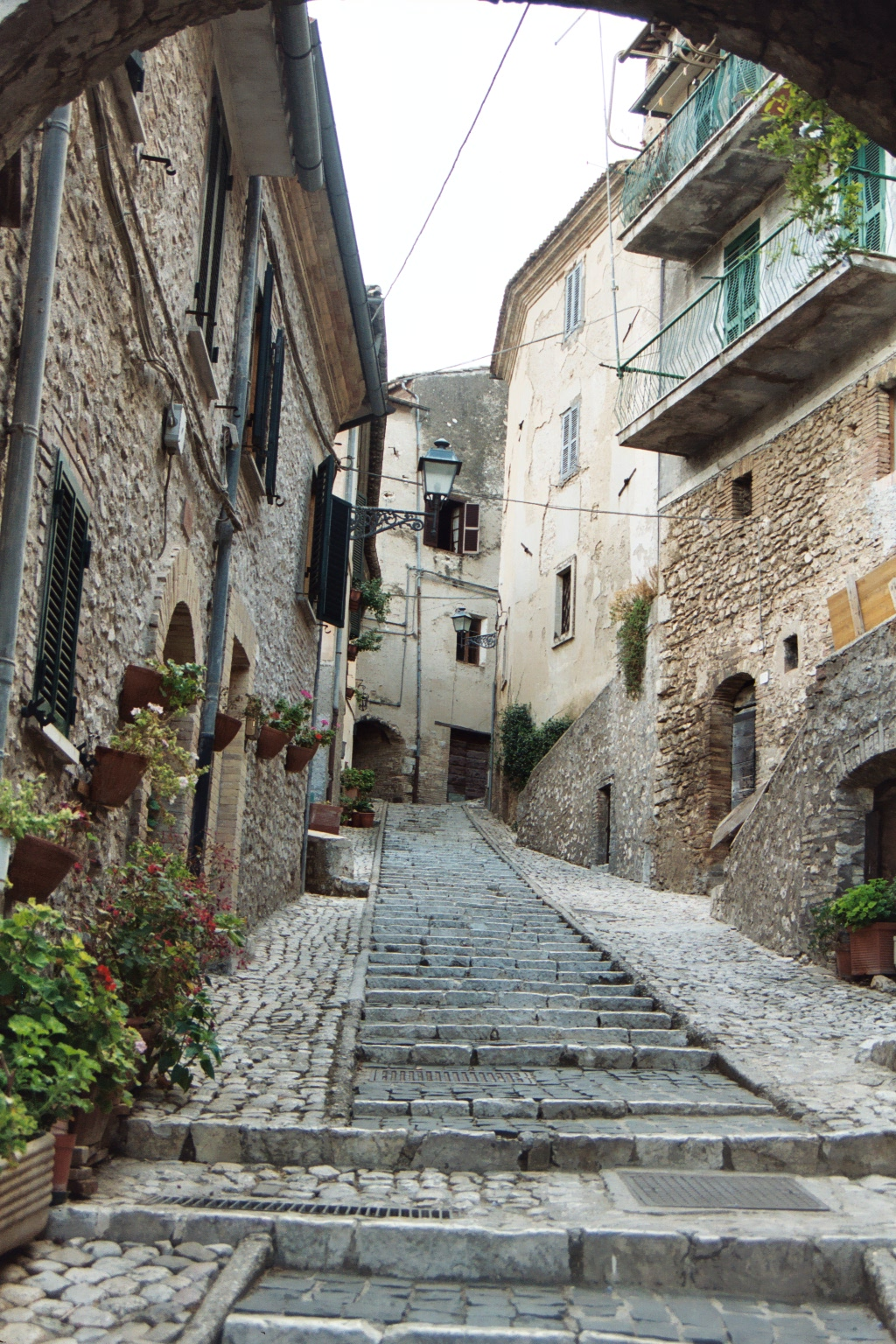 Casperia Town, Italy